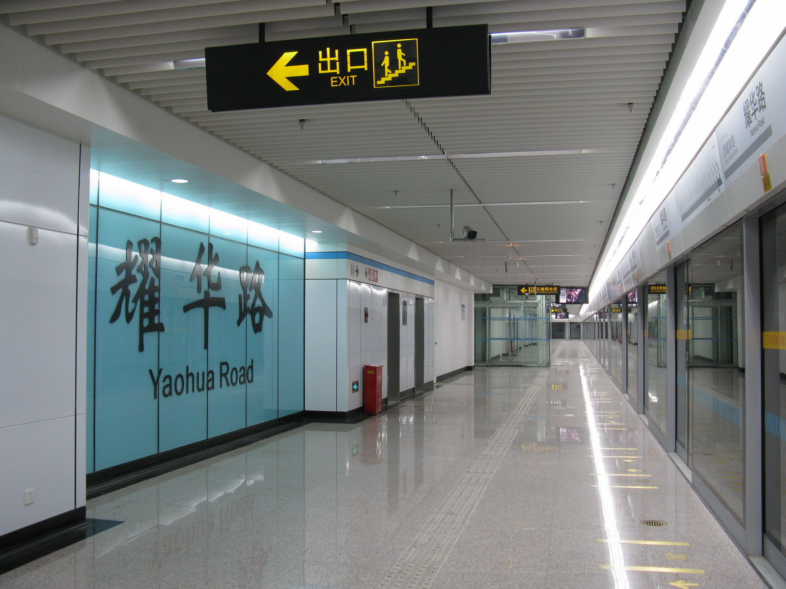 耀华路站 8号线月台 Line 8 Platform of Yaohua Road Station